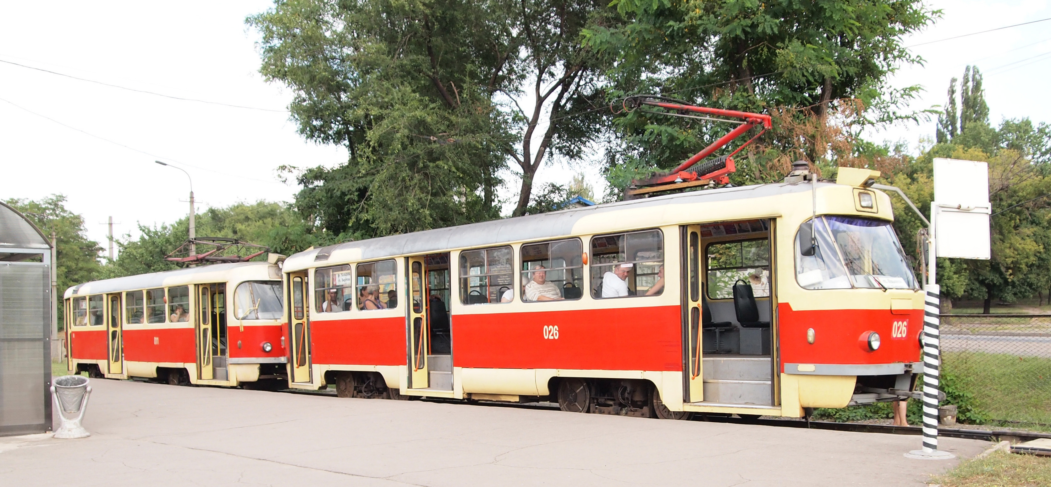 Metro train in Kryvyi Rih. This photograph was taken with an Olympus E-PL1